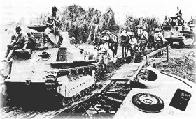 Japanese troops advance in the Philippines.